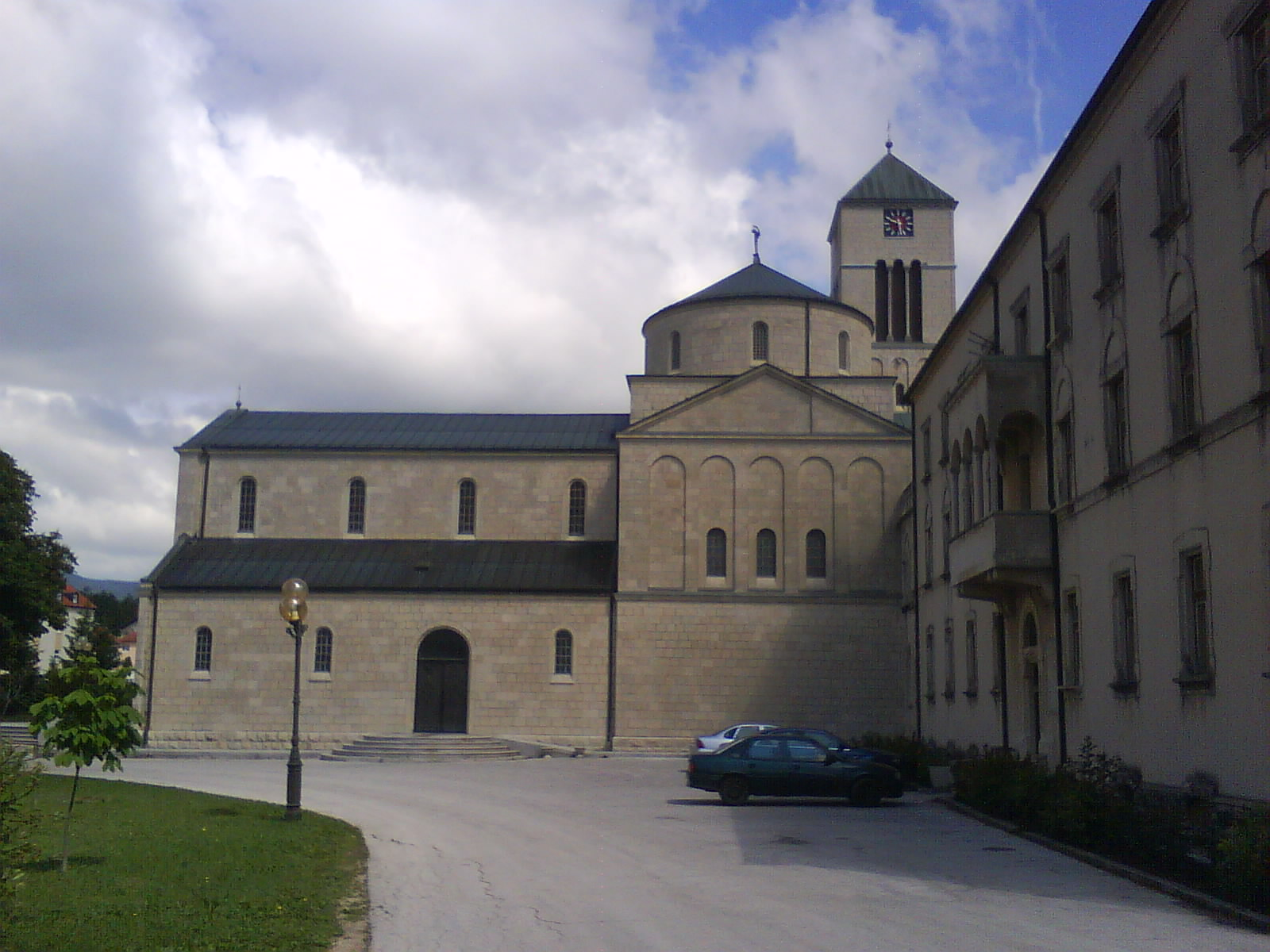 Roman Catholic church of St. Nikola Tavelić in Tomislavgrad